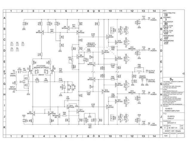 Prikaz_10.12